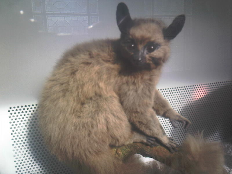 Taxidermied brown greater galago (Otolemur crassicaudatus) at the Natural History Museum in London, England.